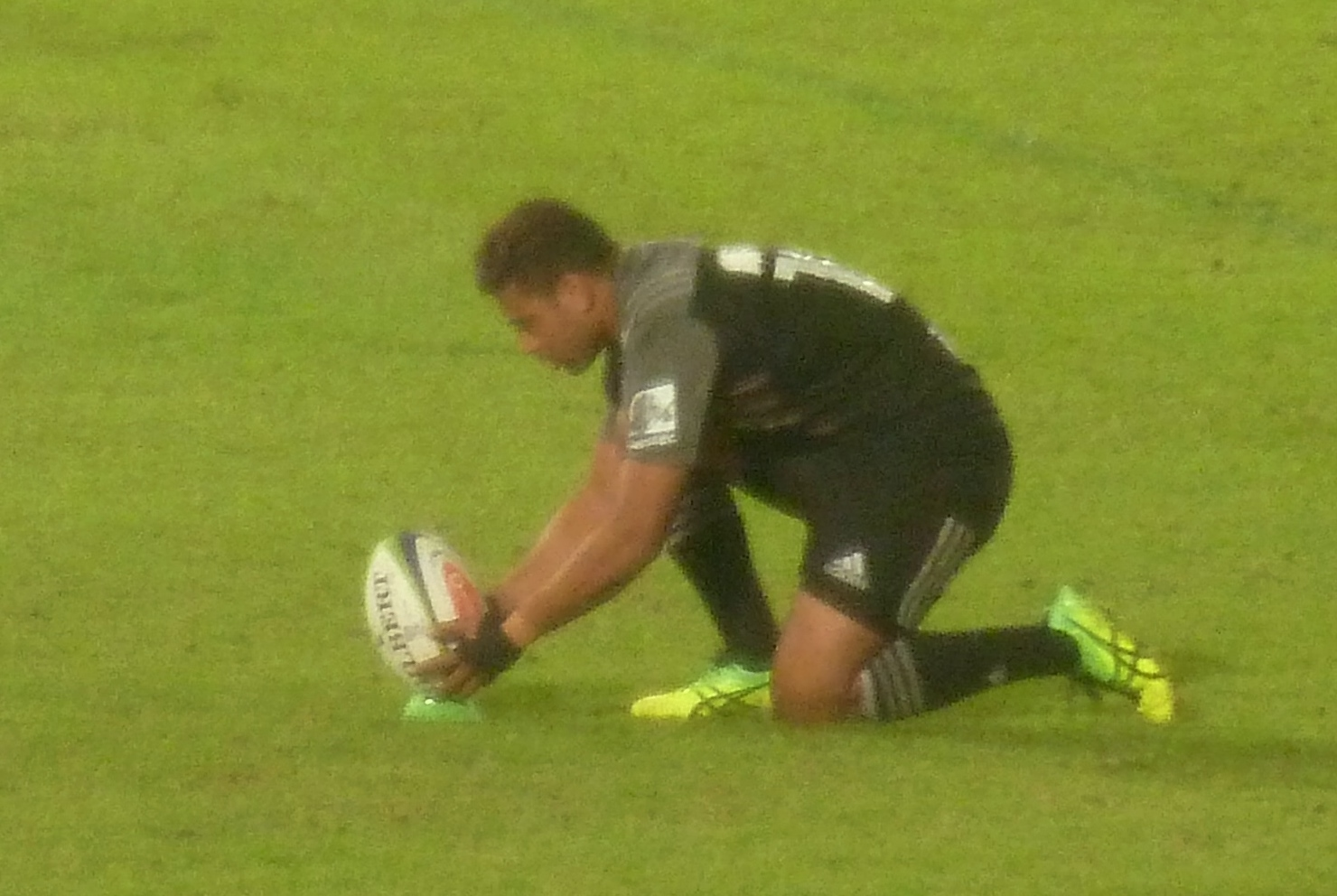 Richie Mo'unga of the Crusaders prepares to convert a try by Jack Goodhue, during their game against the Bulls at Loftus Versfeld, Pretoria